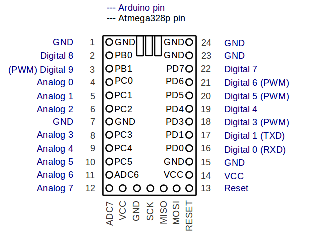 panStamp pin mapping